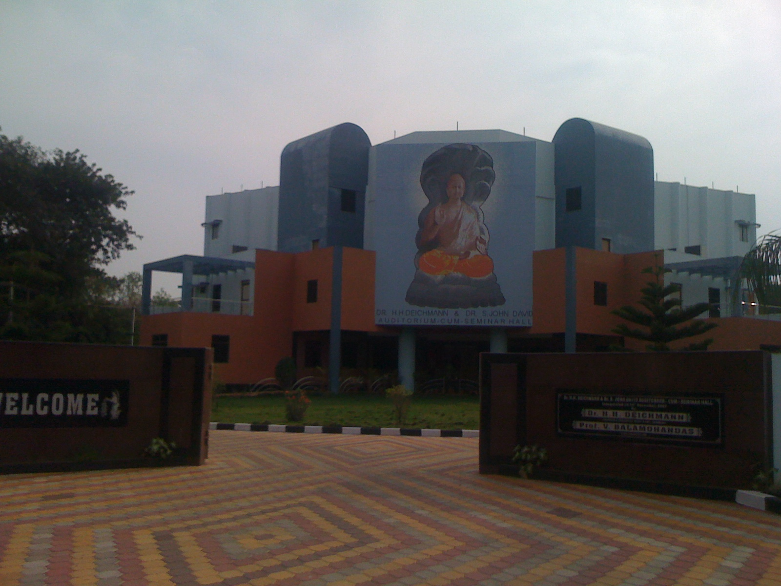 Acharya Nagarjuna University